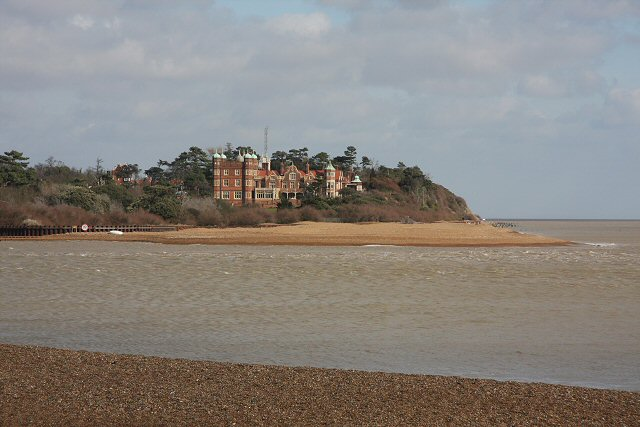 Bawdsey Manor Viewed from Felixstowe Ferry across the mouth of the River Deben.